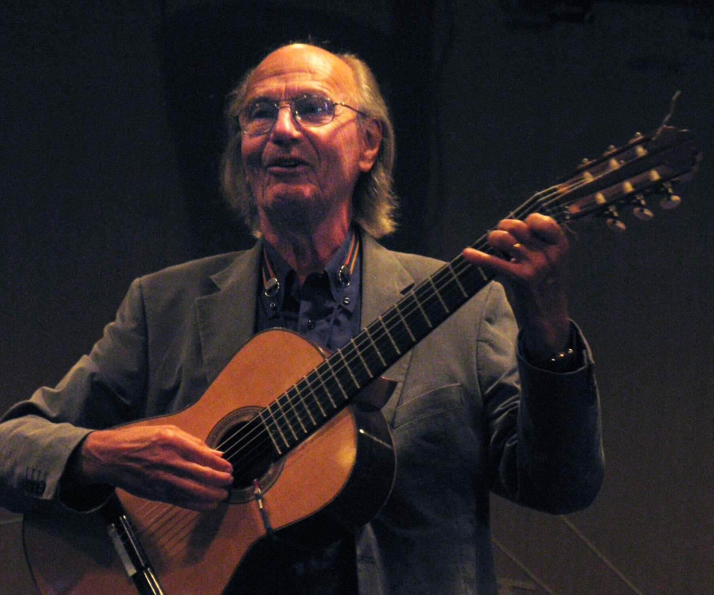 The singer-songwriter Alf Hambe in Turku 2011.